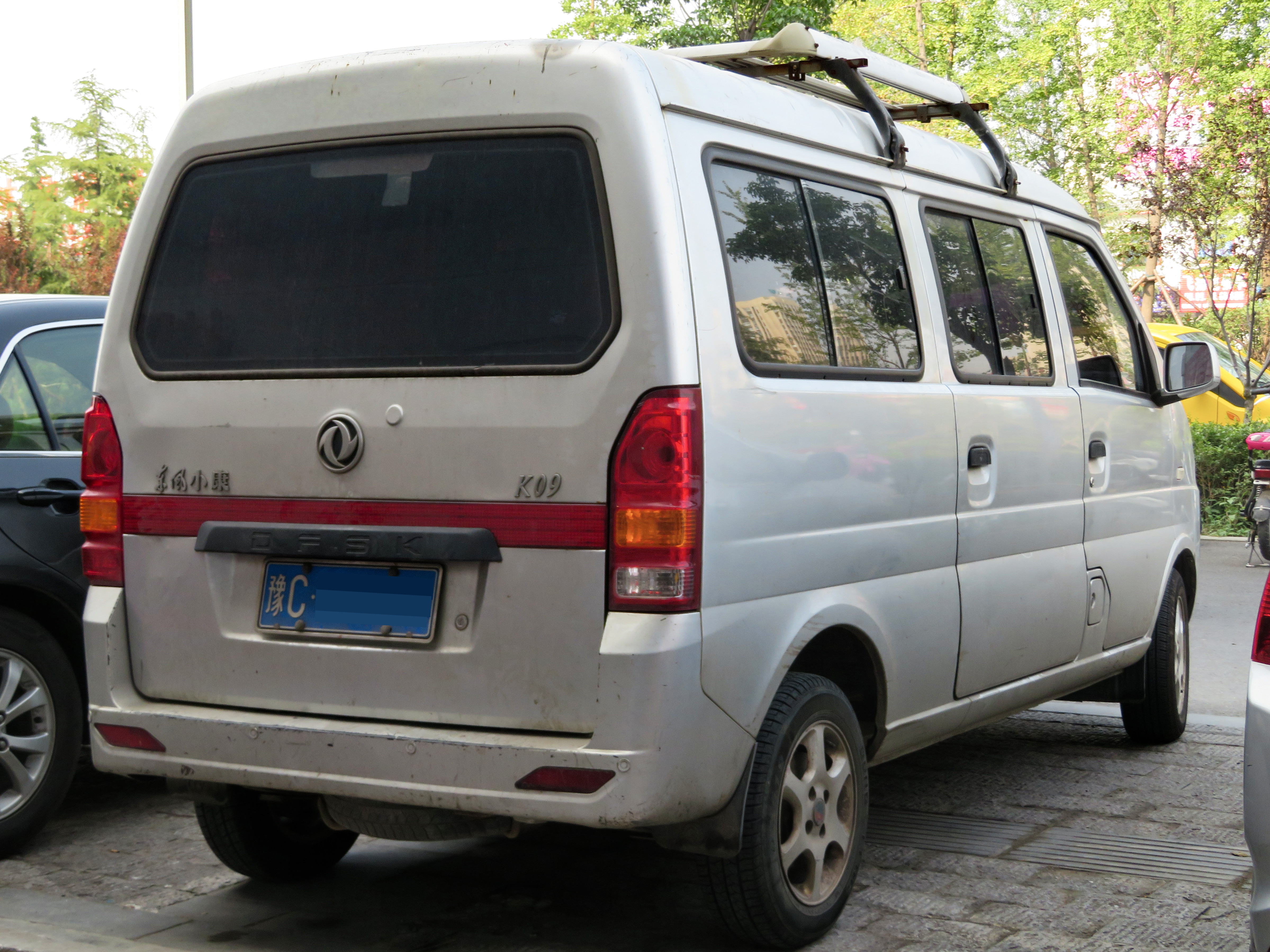 A 2014 Dongfeng-Xiaokang (Sokon) K09 photographed at Guanlinzhen, in Luoyang, Henan province, China